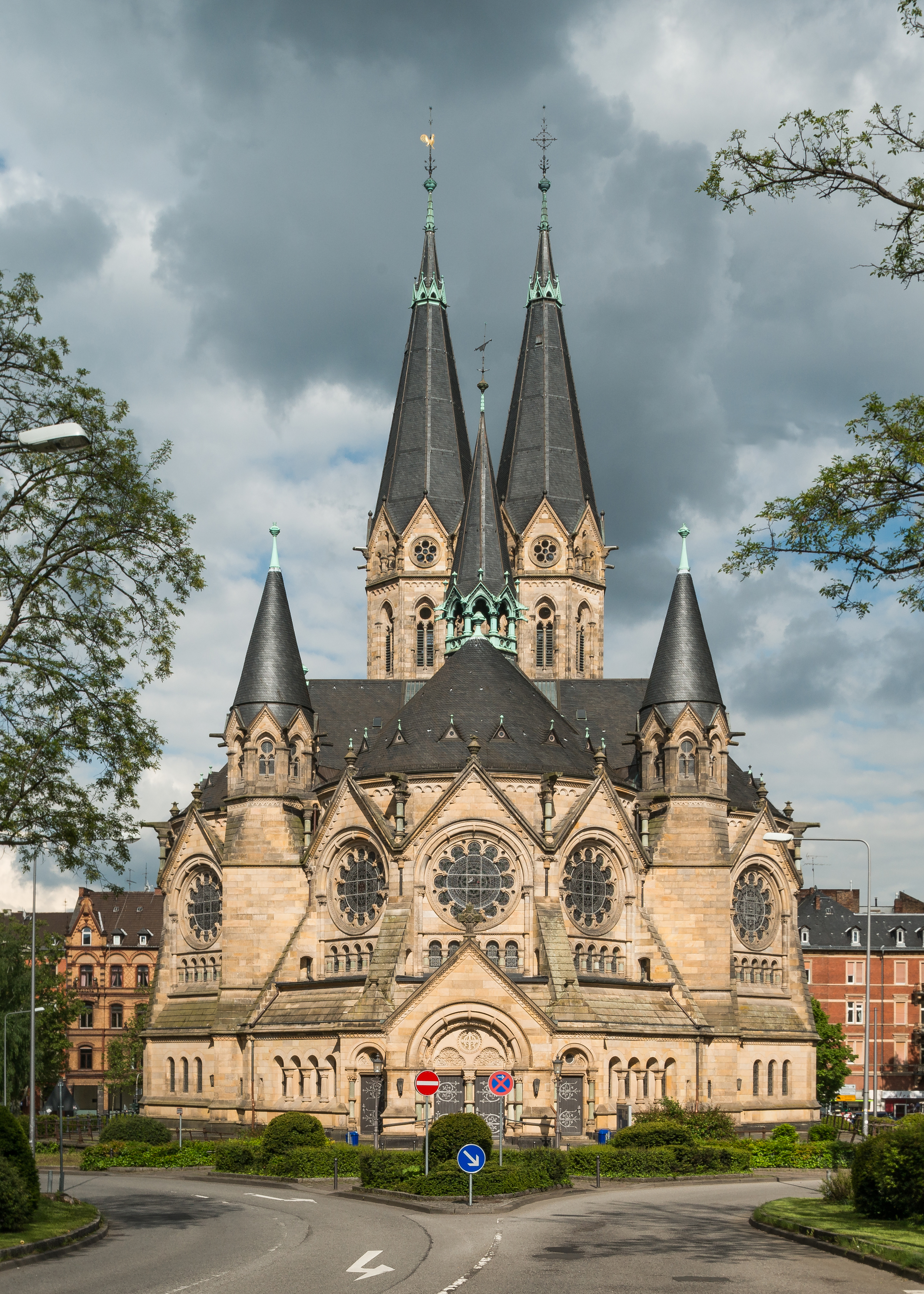 "Ringkirche" in Wiesbaden, Germany, view from the west